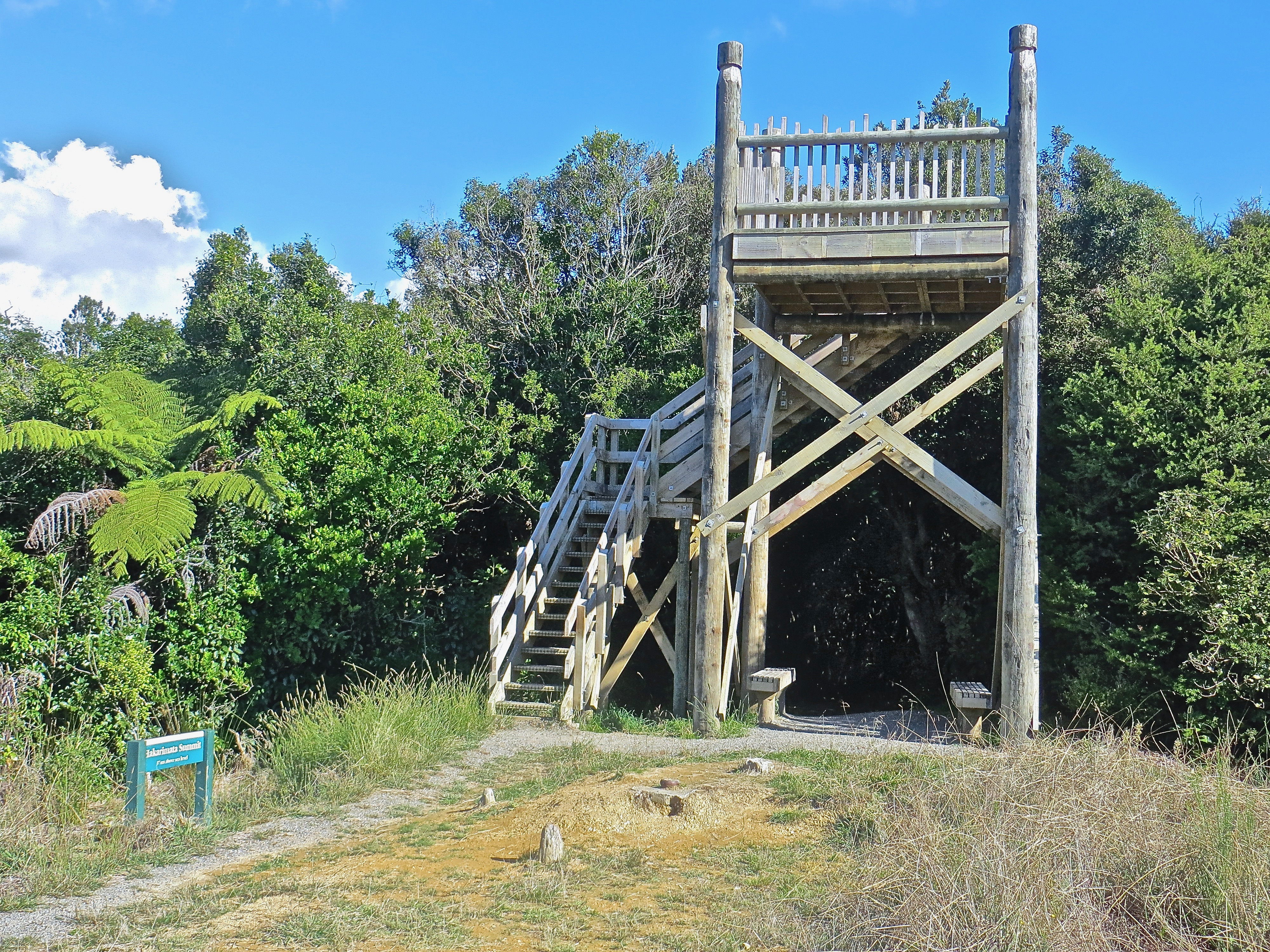 374m summit sign was in place in 2015, but not 2017